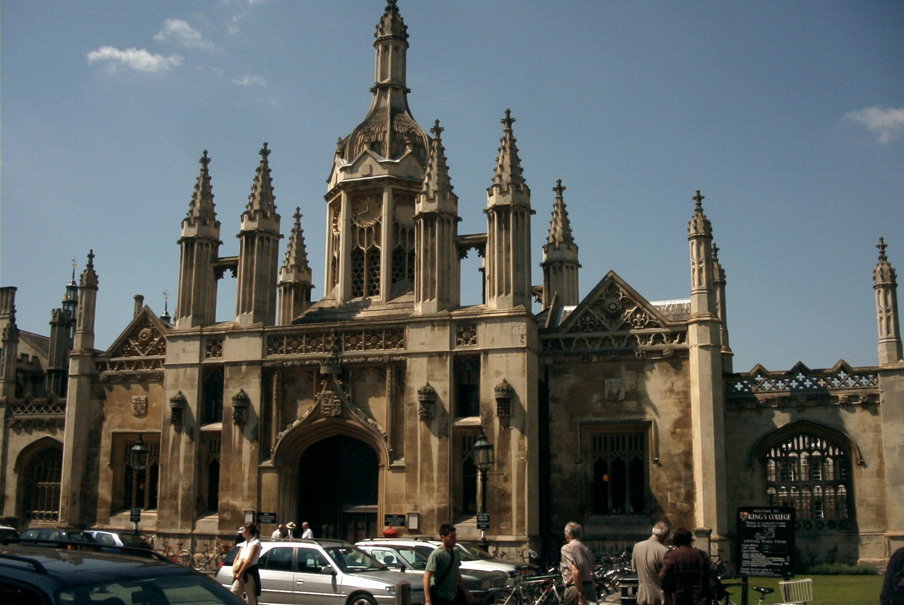 King's College, Cambridge